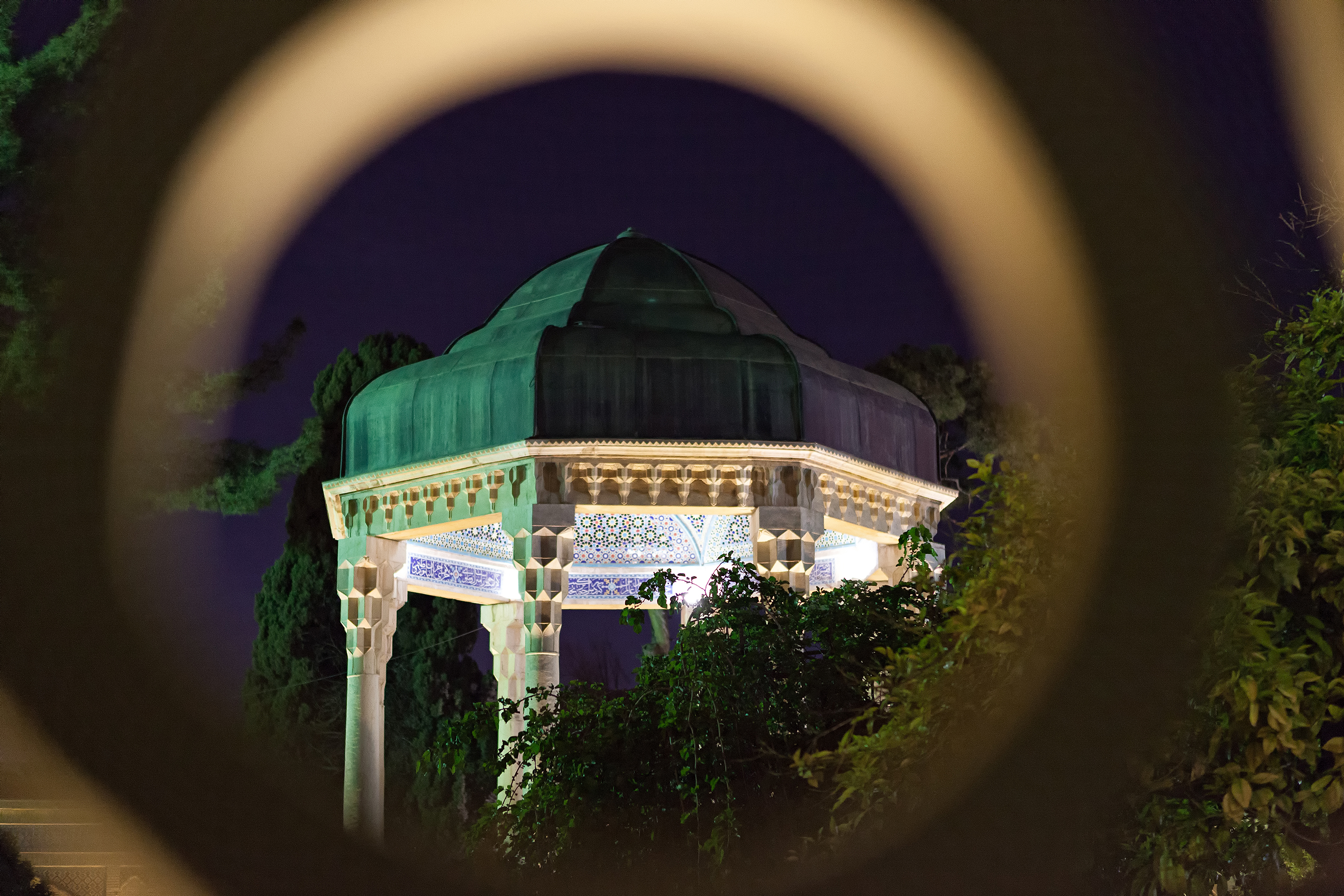 Hafez Tomb, Shiraz, Iran